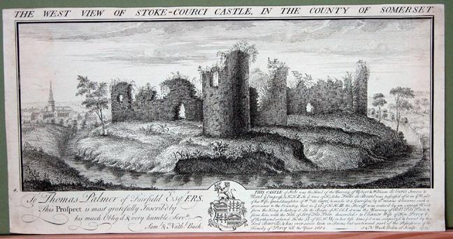 West view of Stogursey Castle, Somerset, by Samuel and Nathaniel Buck, 1733.